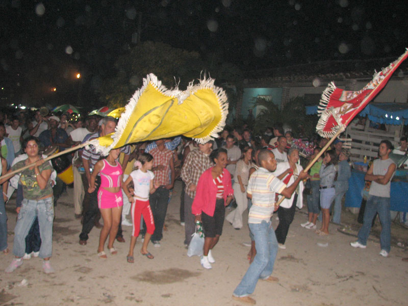 my photos